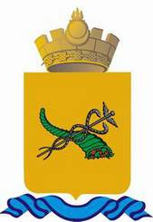 Coat of arms of Ulan-Ude.